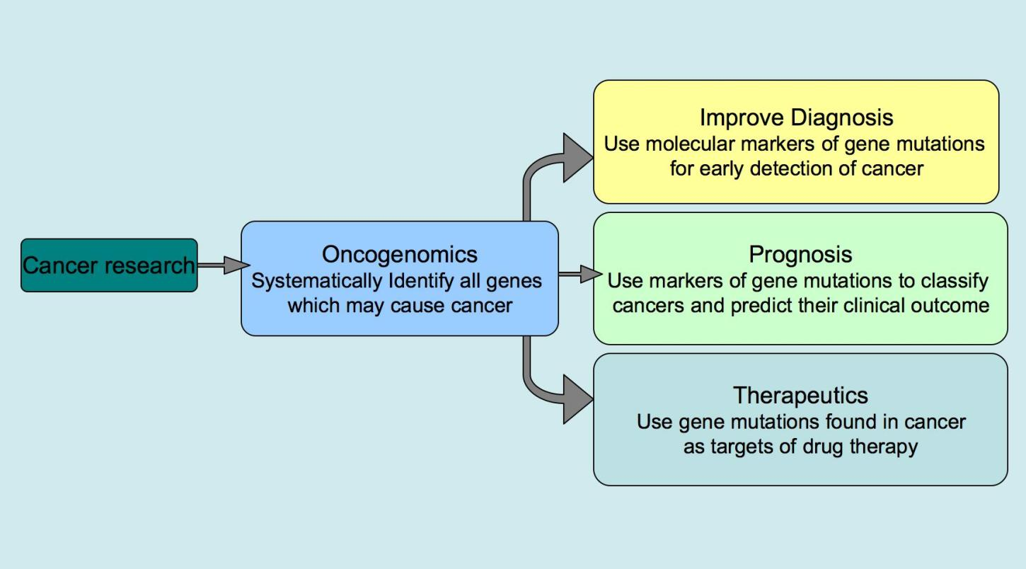 Tiffany Ngai